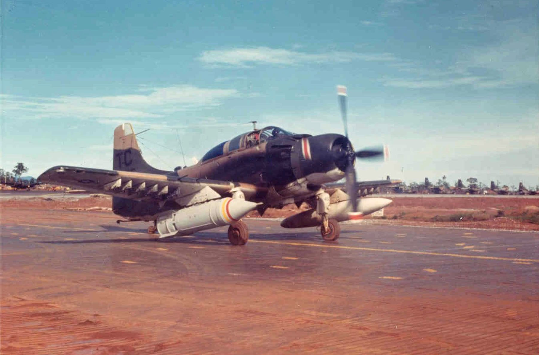 A Douglas A-1E Skyraider of the 1st Special Operations Squadron, 56th Special Operations Wing at Nakhom Phanom Royal Thai Air Force Base on 29 Sept 1968. The aircraft is carrying a BLU-72/B bomb under the right wing. The BLU-72/B was a 1130 kg (2500 lb) FAE (Fuel/Air Explosive) bomb, which was filled with 1020 kg (2245 lb) of propane. It was designed for low speed delivery and was equipped with a retarding drogue. The BLU-72/B was developed under the "Pave Pat I" programme, and combat-tested in South-East Asia in 1967/68.